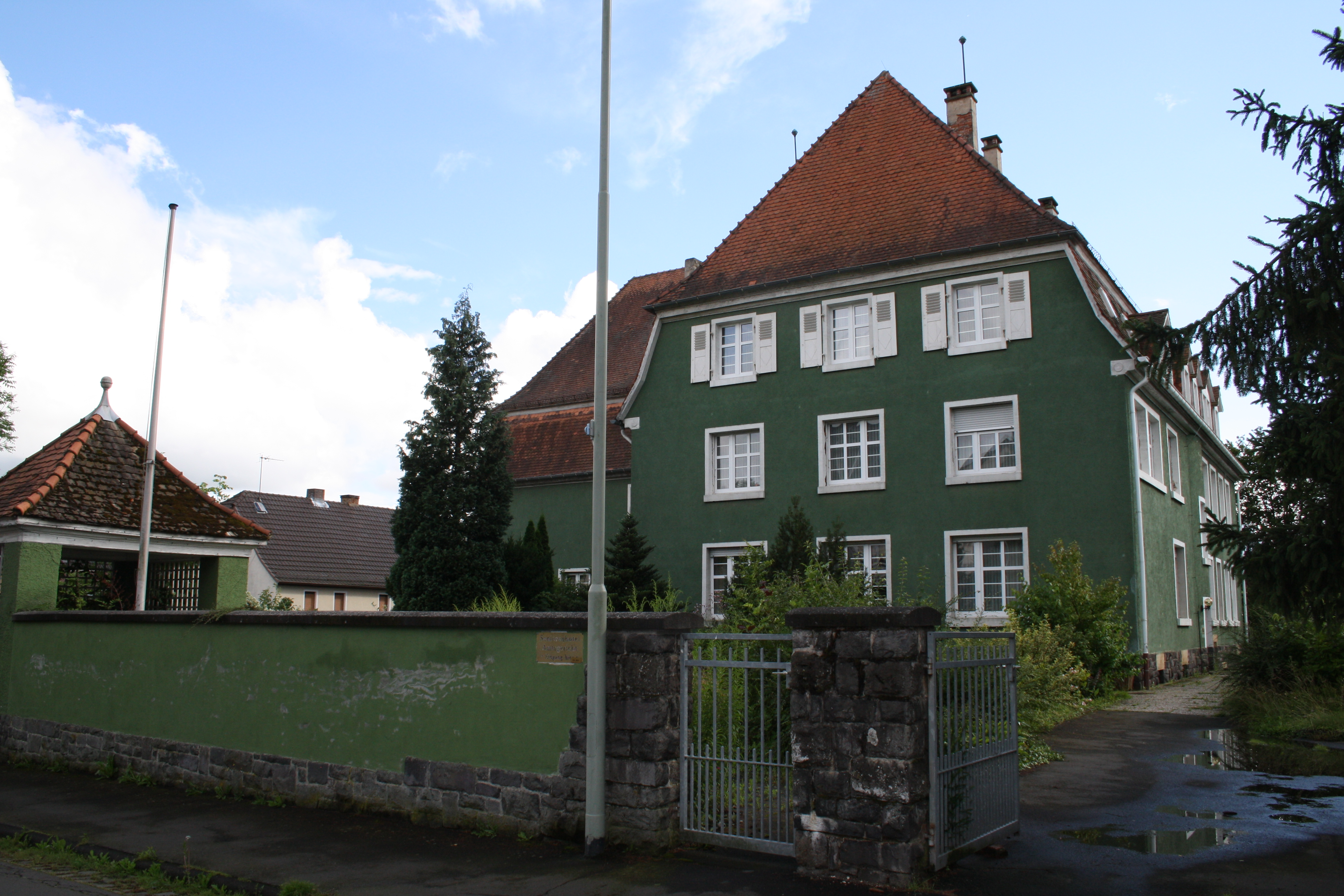 Local district court of Laubach, July 2012